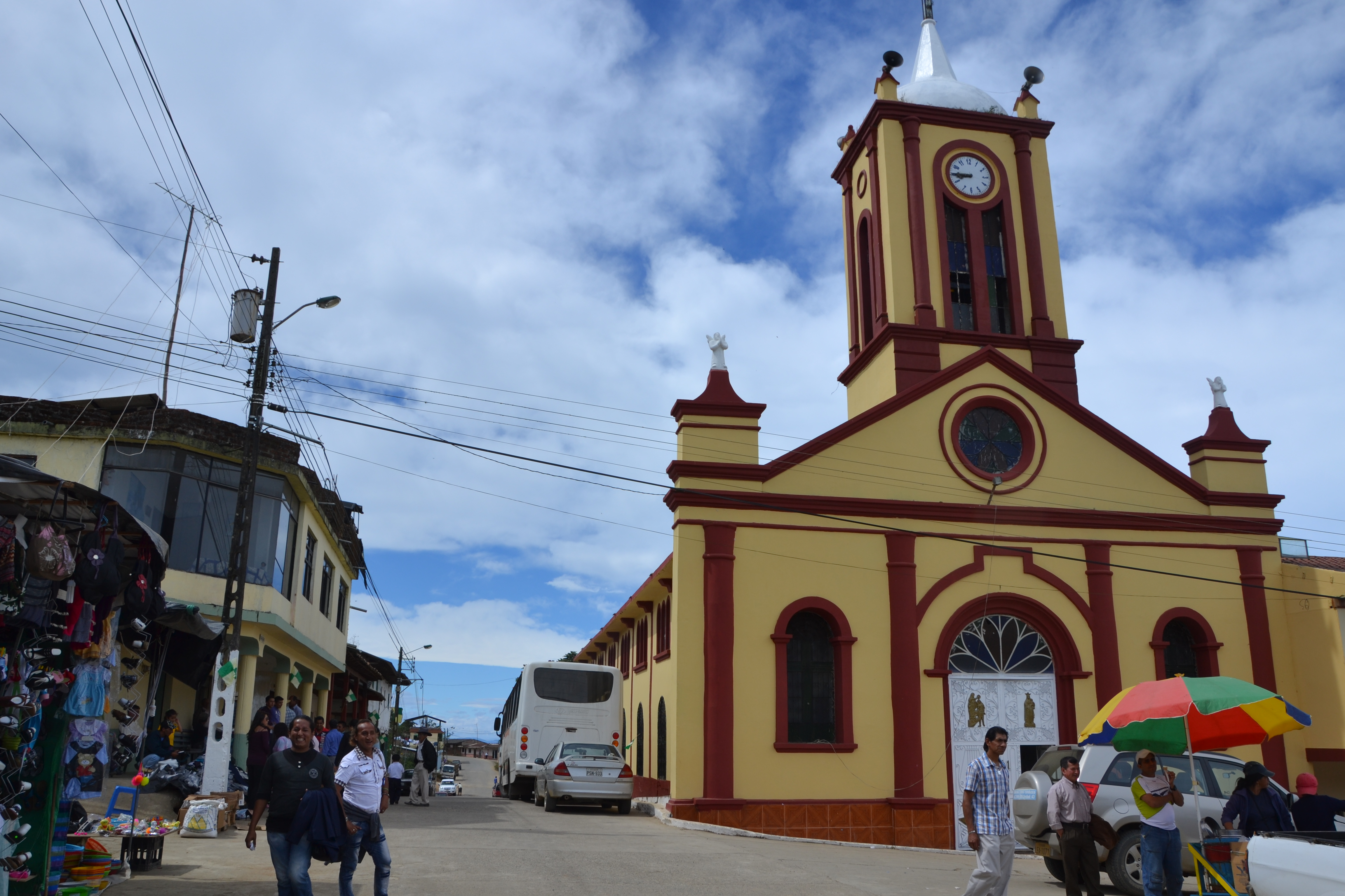 fiestas pozul 2